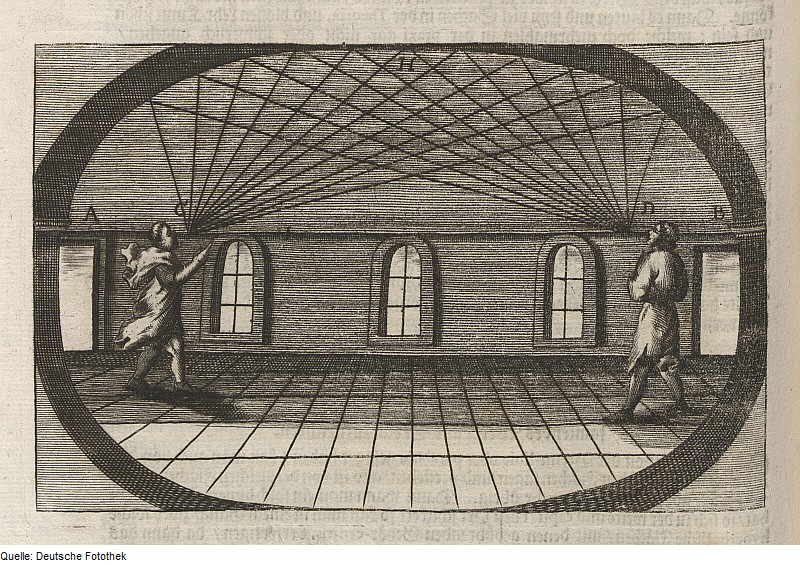 Original image description from the Deutsche Fotothek Akustik & Schall & Reflexion & Echo & Ordensliteratur